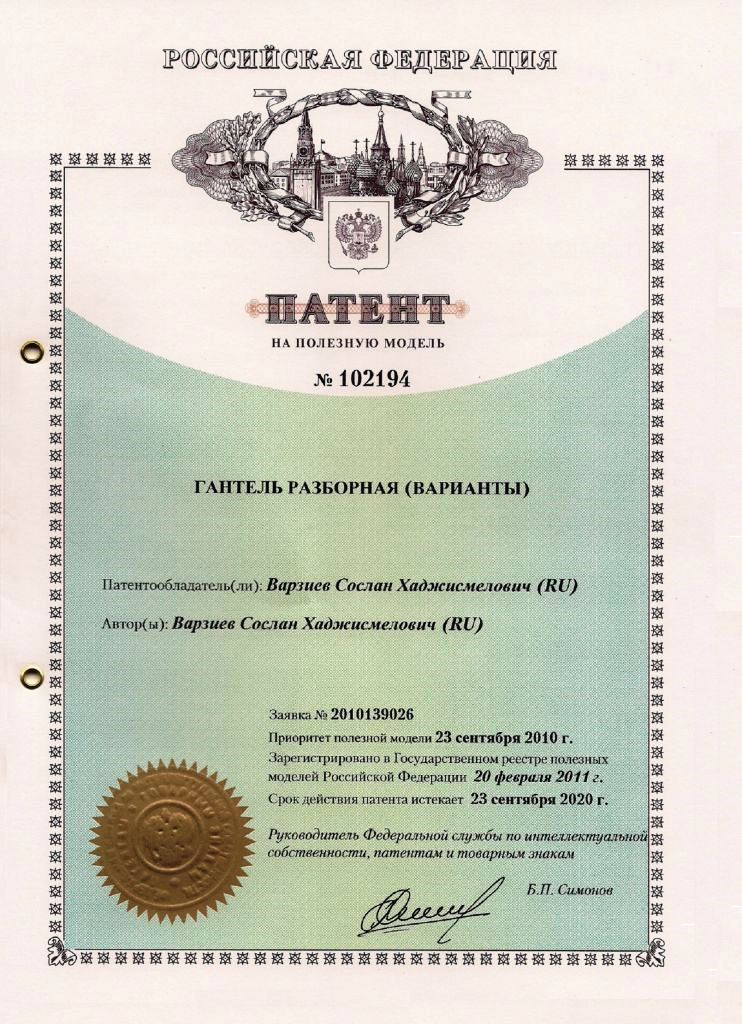 Utility model patent No. 102194 - Dumbbell collapsible (versions)